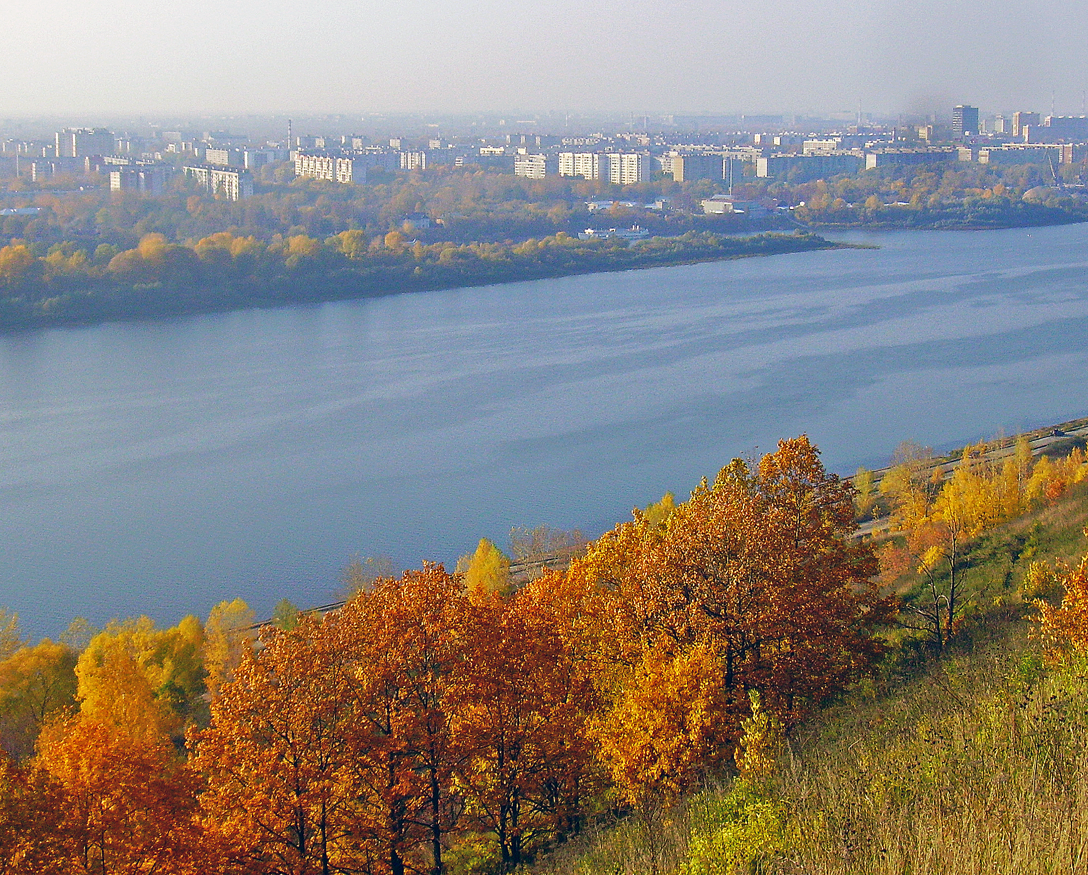 Nizhny Novgorod. Autumn view to Oka River from Shveitsariya Park